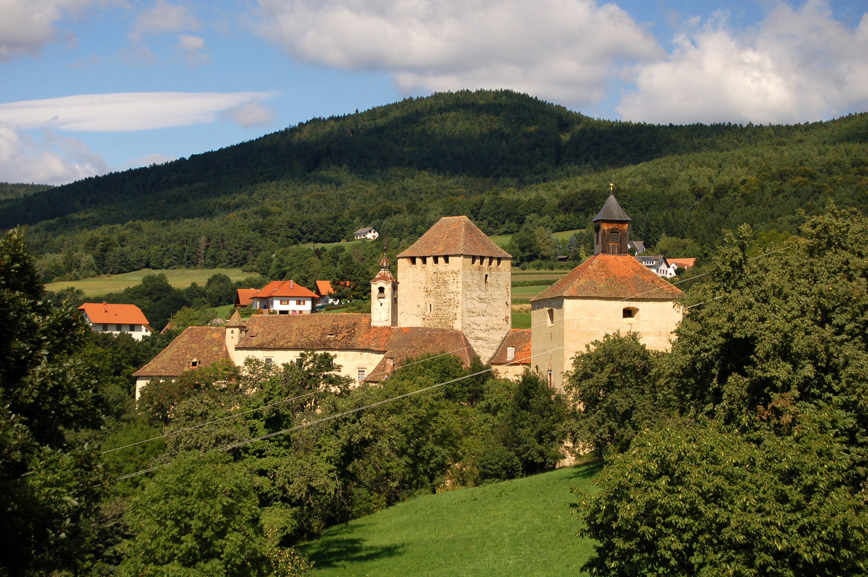 Burg Neuberg, Löffelbach near Hartberg, Styria. In the background the Wullmenstein 867m.